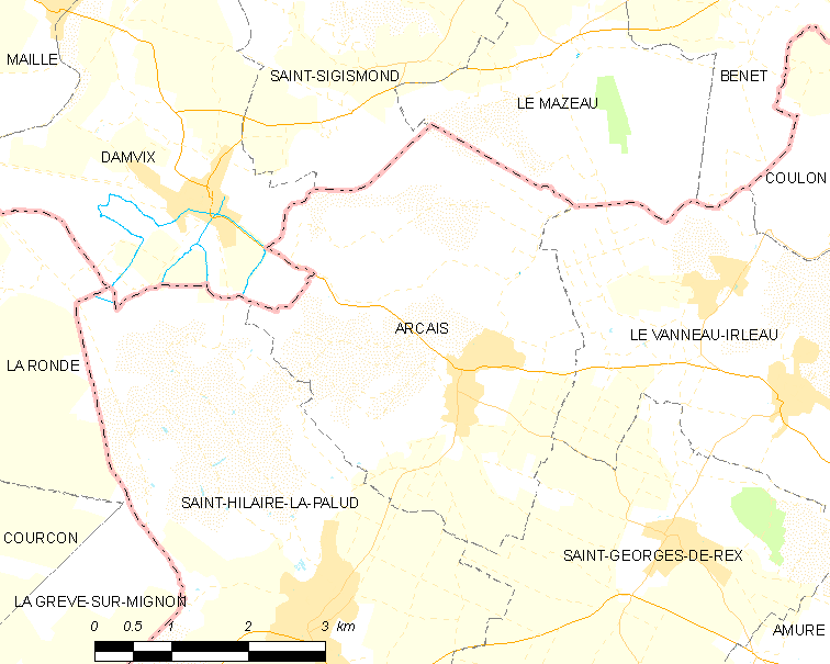 Map of French municipality Arçais